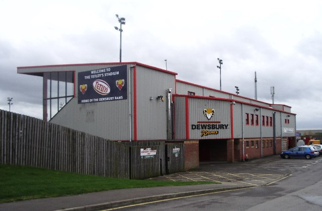 The Tetley's Stadium - Home of Dewsbury Rams. Built in 1993, this stadium has 2 covered stands. One seated and the other standing, has an approximate capacity of 3300.